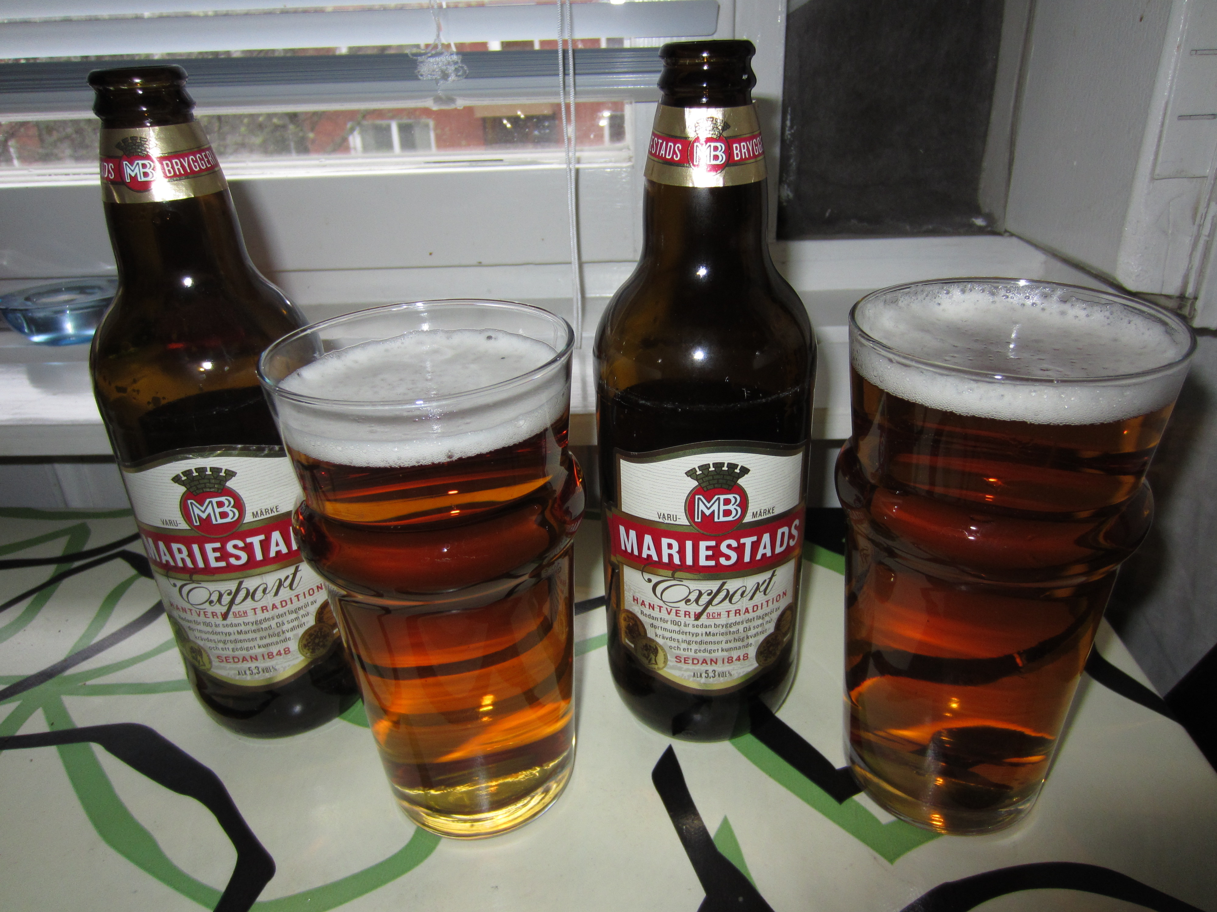 Swedish beer "Mariestad".